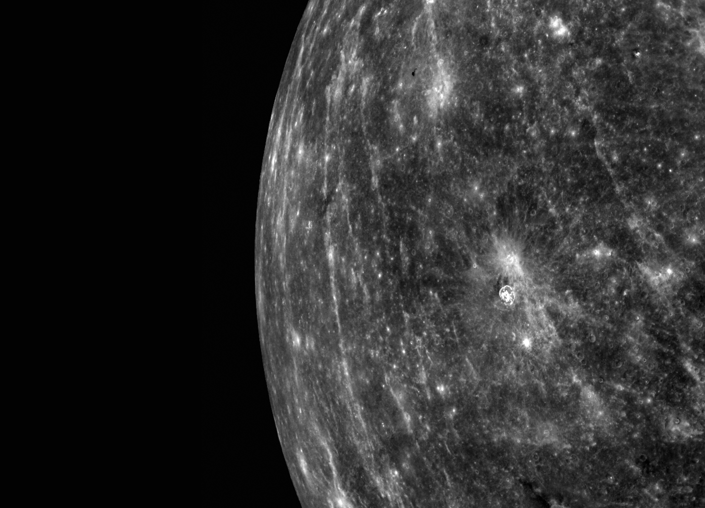 A Monochrome view of Mercury from MESSENGER. The bright crater near center is Warhol.